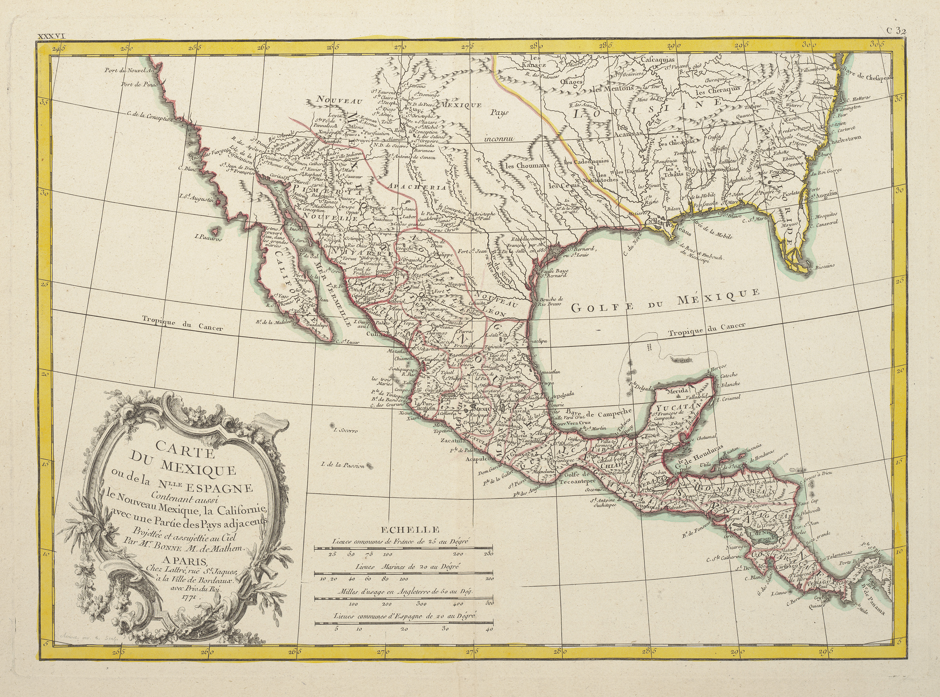 French hydrographic engineer, mathematician, and cartographer Rigobert Bonne's 1771 map of Mexico or New Spain published by Jean Lattré or his son featured an elegant rococo-style cartouche engraved and designed by a little-known artisan named "Arrivet." Bonne's map shows but does not name all of a total of seventeen rivers in Texas. Missions along the left bank of the Rio Grande or "Riviere du Nord" above its junction with the Pecos (here labeled the "Riv. Salado ou Riviere des Apaches") include St. Christophe (San Cristobal, founded in 1715), St. Paul, la Conception, and St. George.